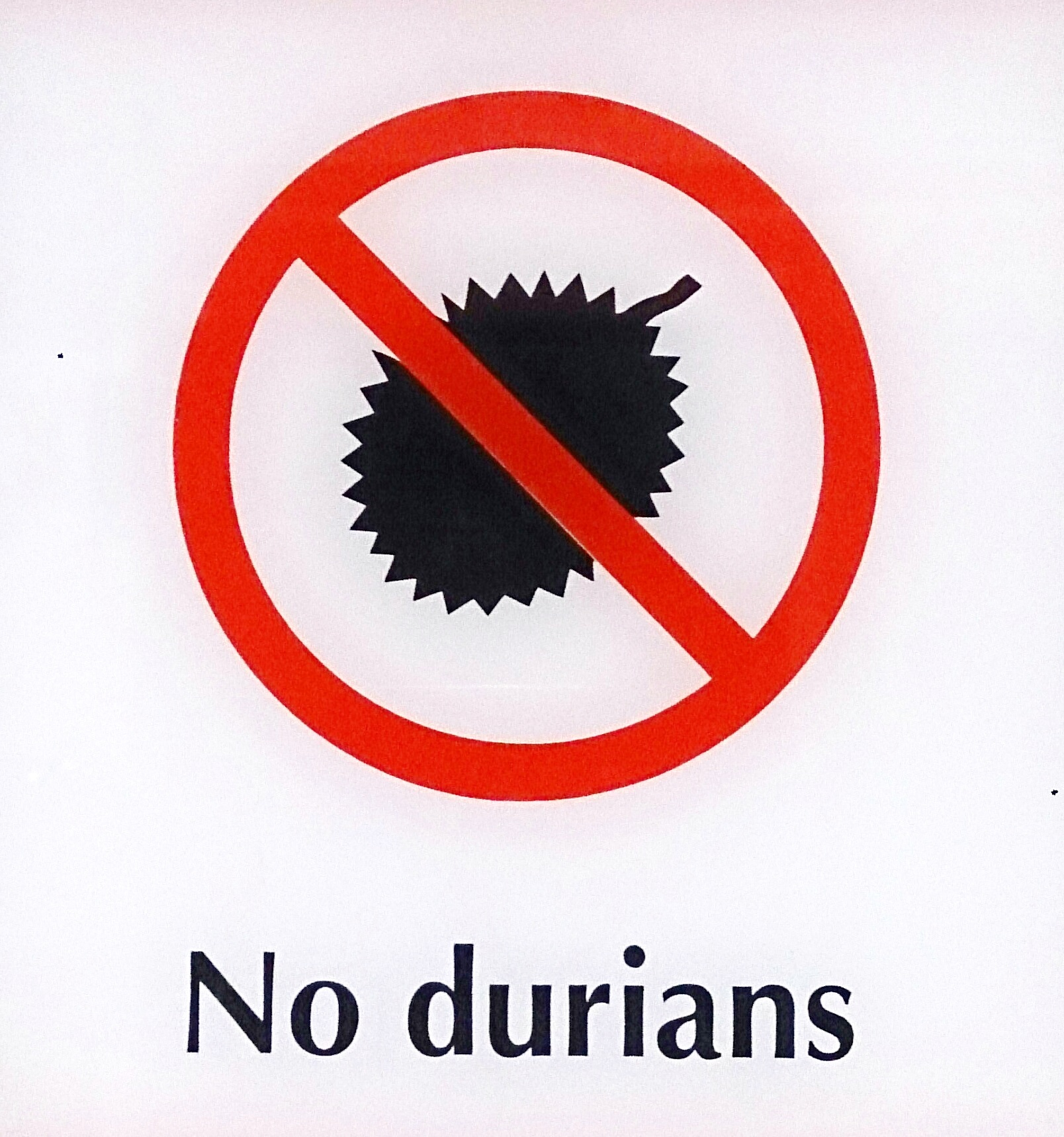 durians not allowed, says the sign. This sign is found in MRT stations in Singapore.